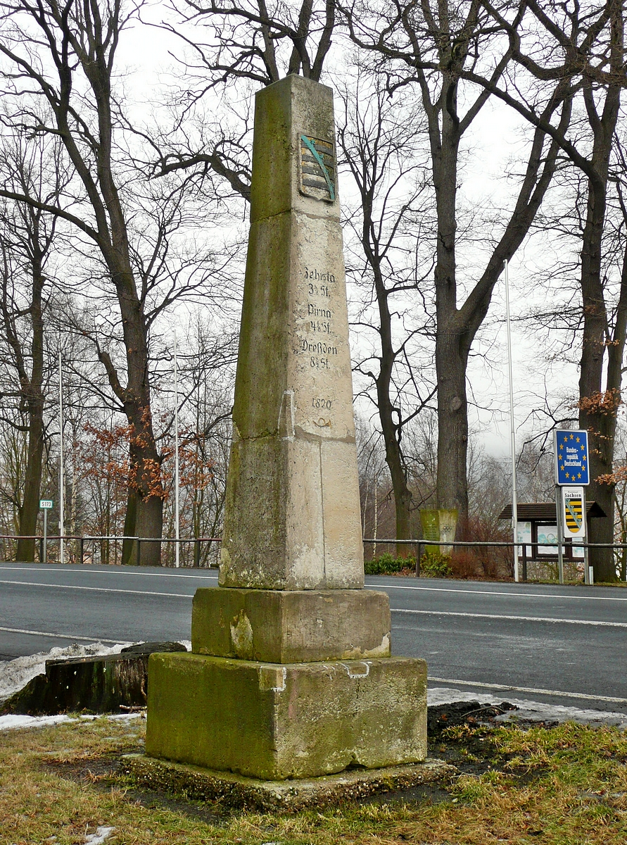 Hellendorf: electoral saxonian postmile-stone near the german-czech-border.